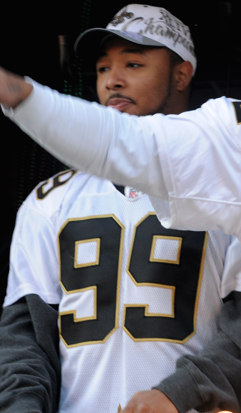 February 9, 2010